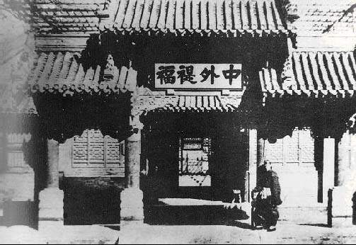 Picture on Late Ching Dynasty institution Zongli Yamen.